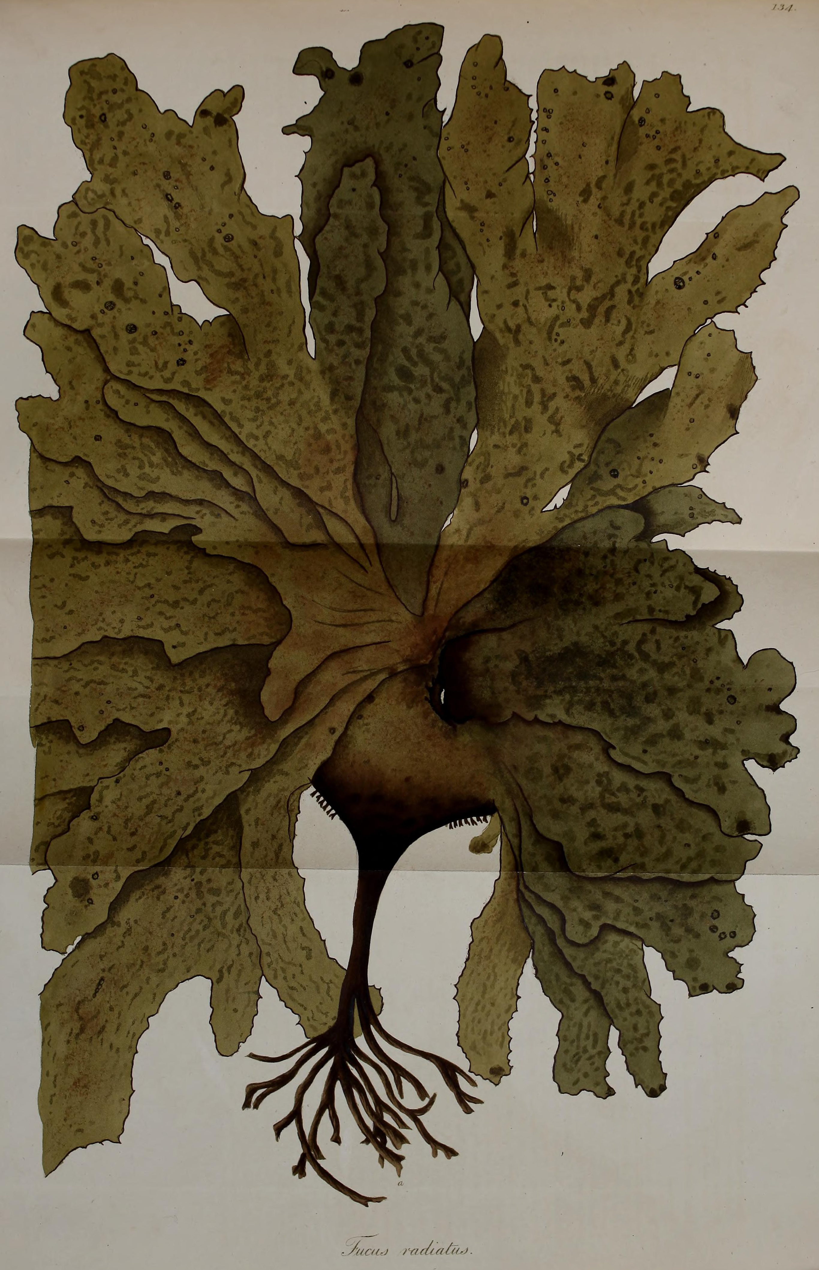 Ecklonia radiata (C. Agardh) J. Agardh (1848) Illustrated by "W. J. H., esq" Labeled as Fucus radiatus [non F. radiatus Goodenough & Woodward 1797: 202 =Polyides rotundus (Gmelin) Greville]